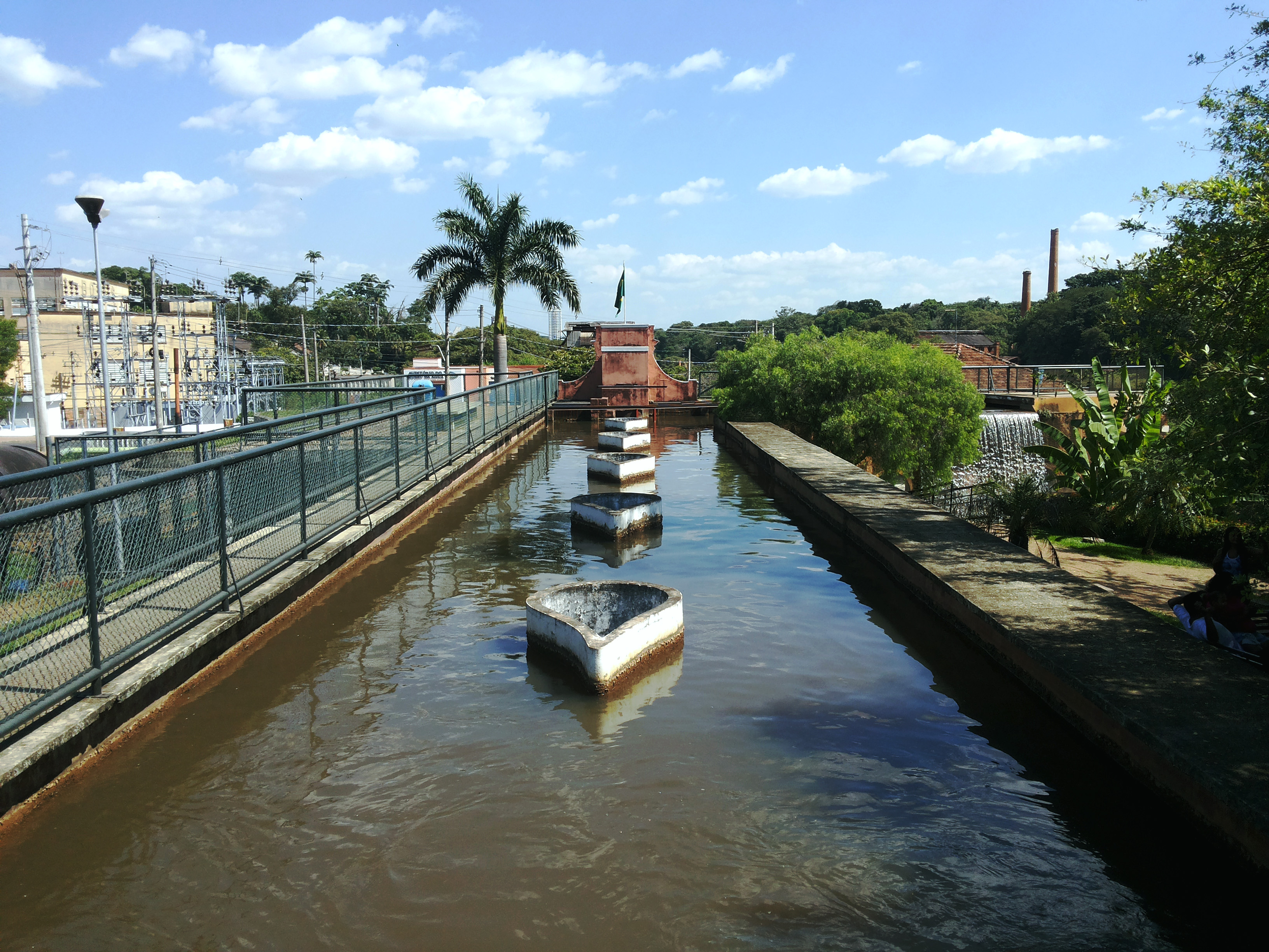 Piracicaba's Water Museum(Brazil)